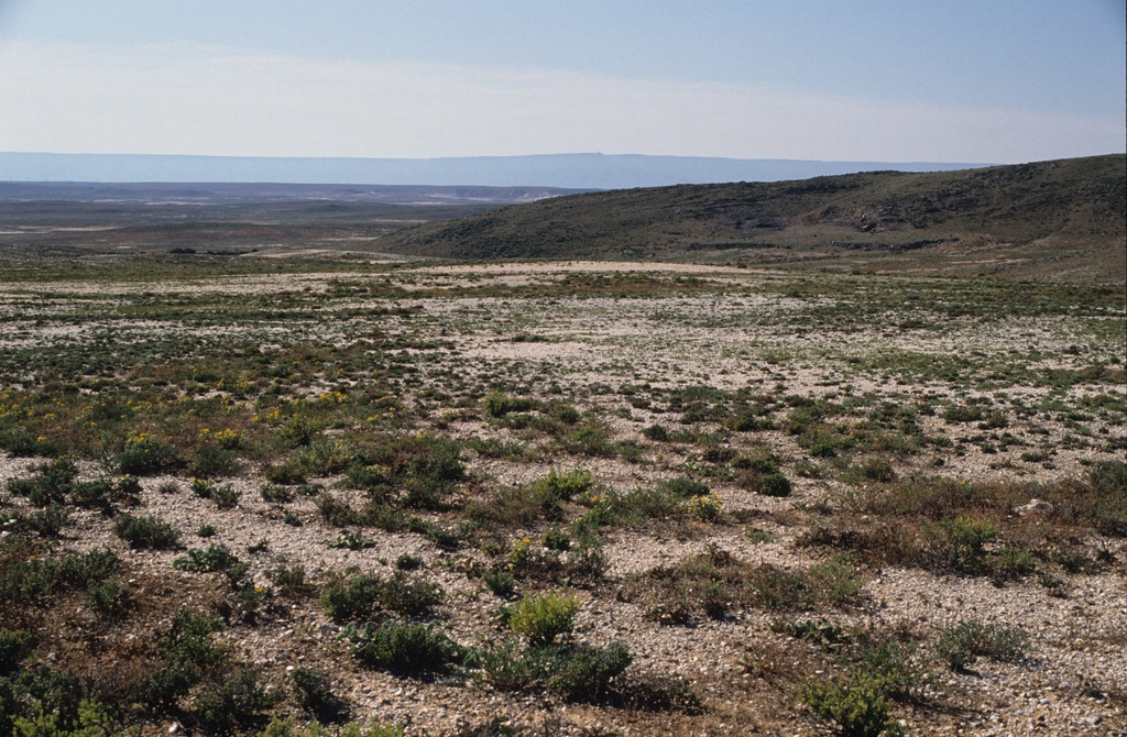 Quartz stone covered landscape of the Knersvlakte, north of Vanrynsdorp